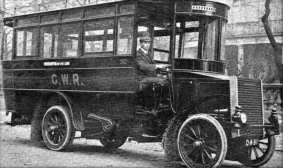 Great Western Railway Clarkson steam bus on 14 mile Wolverhampton-Bridgnorth route started 7 November 1904. It was later transferred to Cheddar to Burnham route.